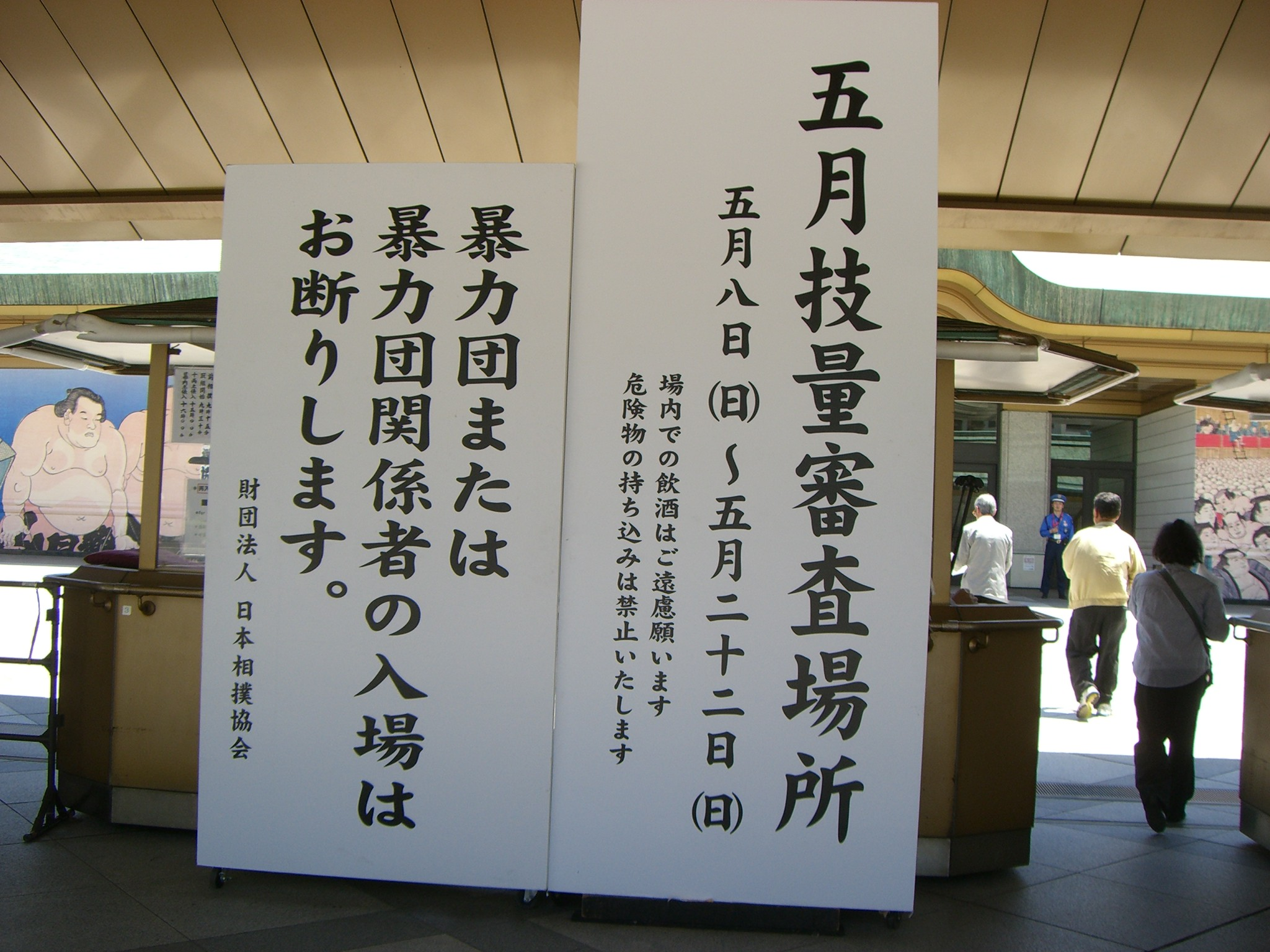 2011 May Giryō-Shinsa Basho.